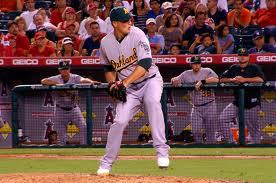 justin james pitching